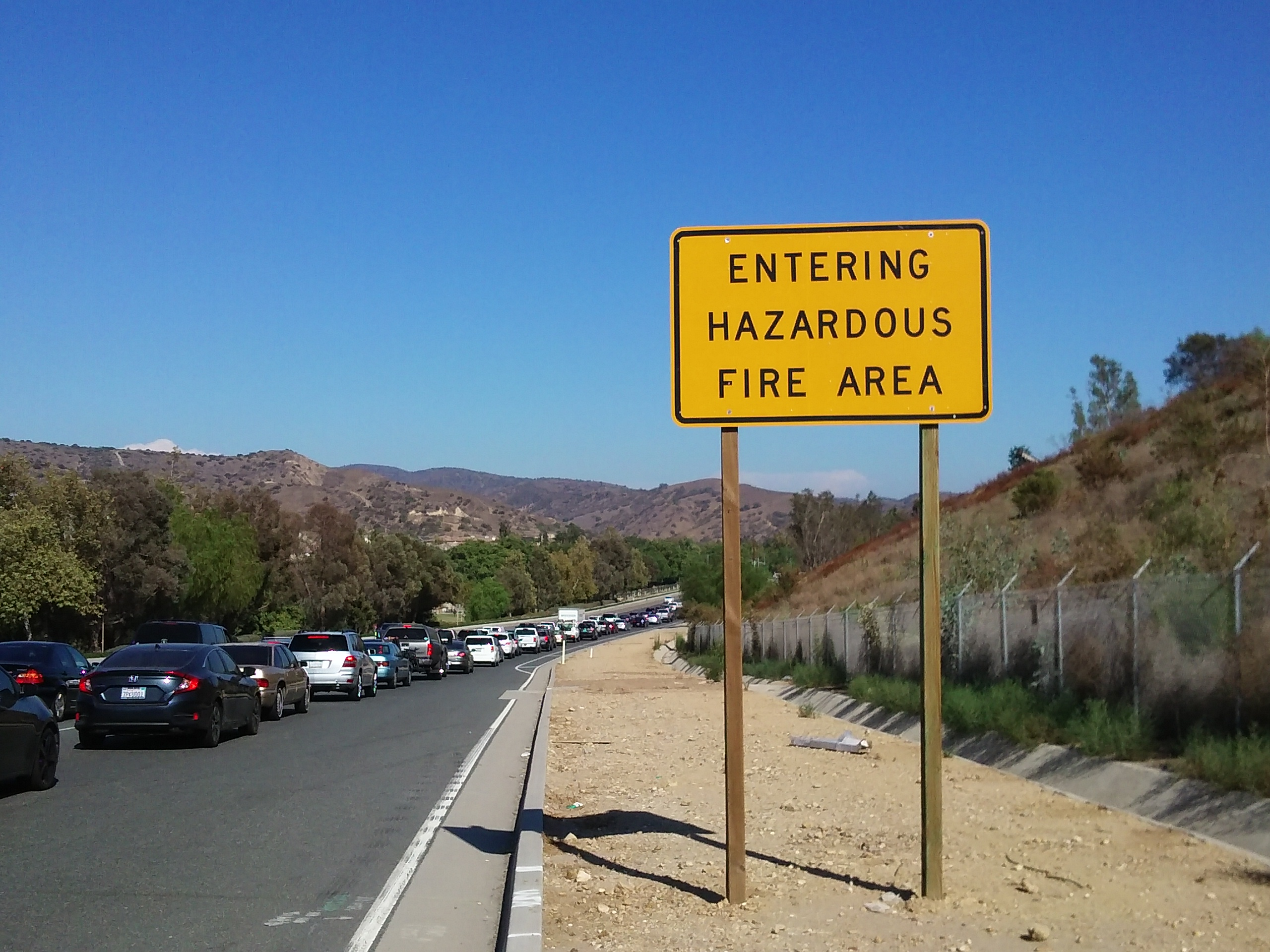 This image shows the hazardous fire area warning sign that is at the Brea side of Carbon Canyon road (SR142) in Brea, California.